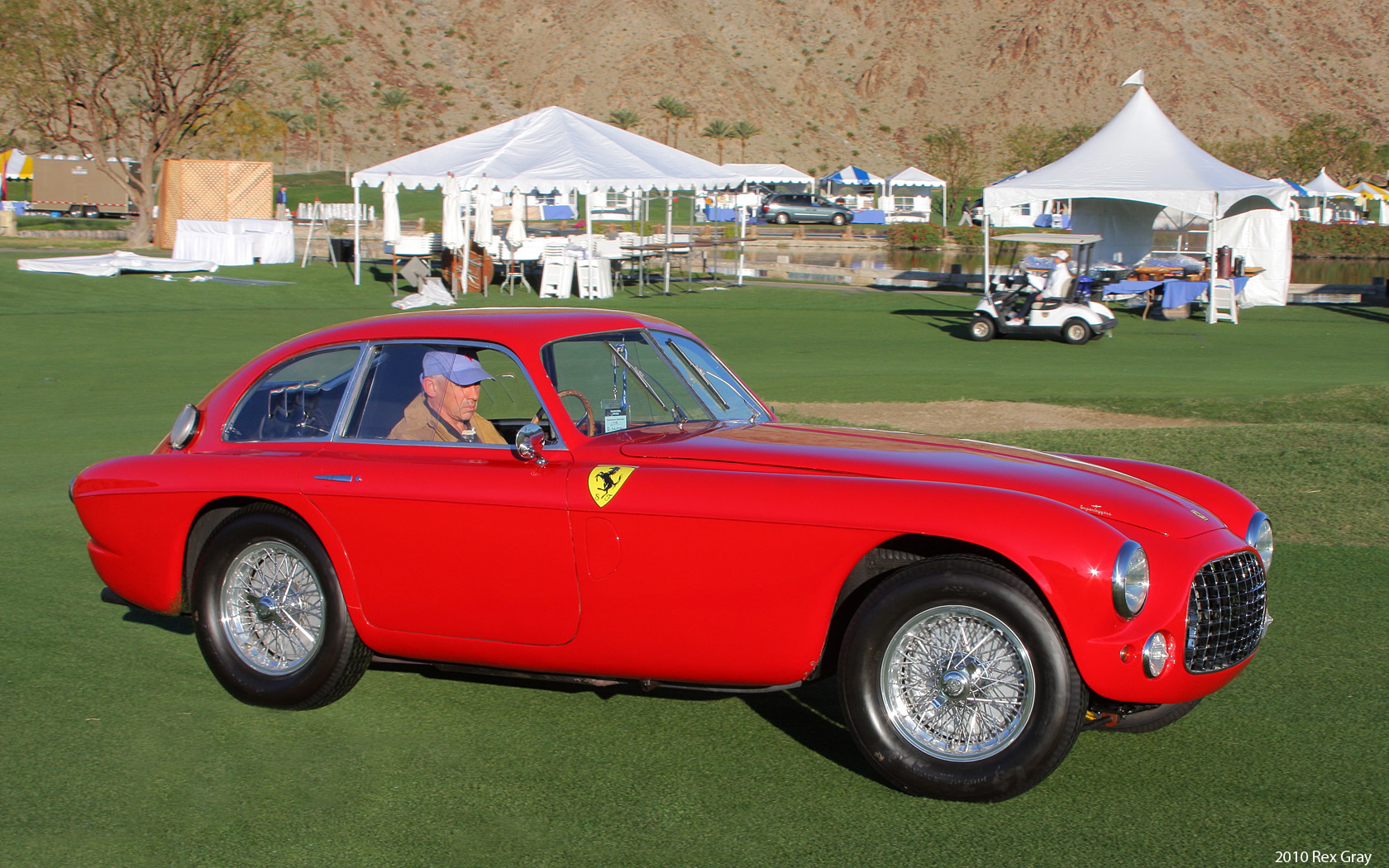 Third Annual Desert Classic Concours d'Elegance, Feb 28 2010